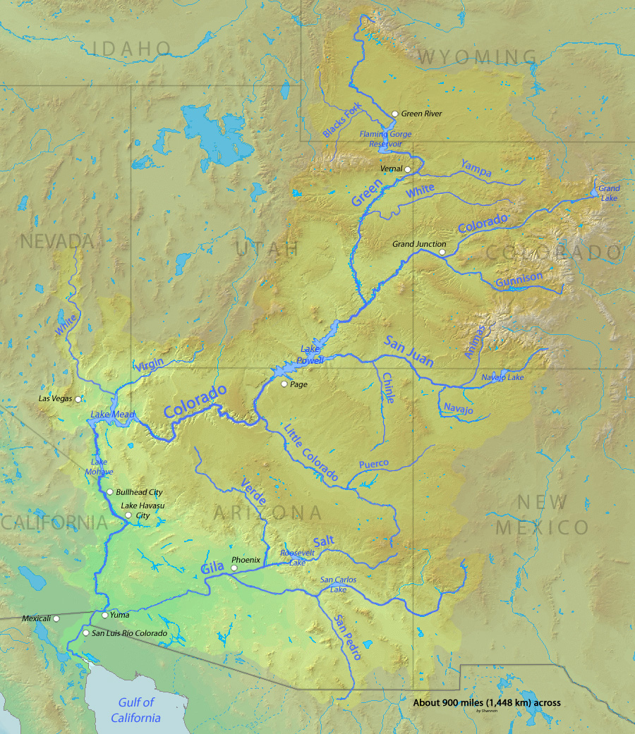 Map of the Colorado River watershed that drains much of the southwestern U.S. to the Gulf of California. "- or formerly drained to the Gulf; now the water all goes to Las Vegas, central Arizona, and the Imperial Valley."